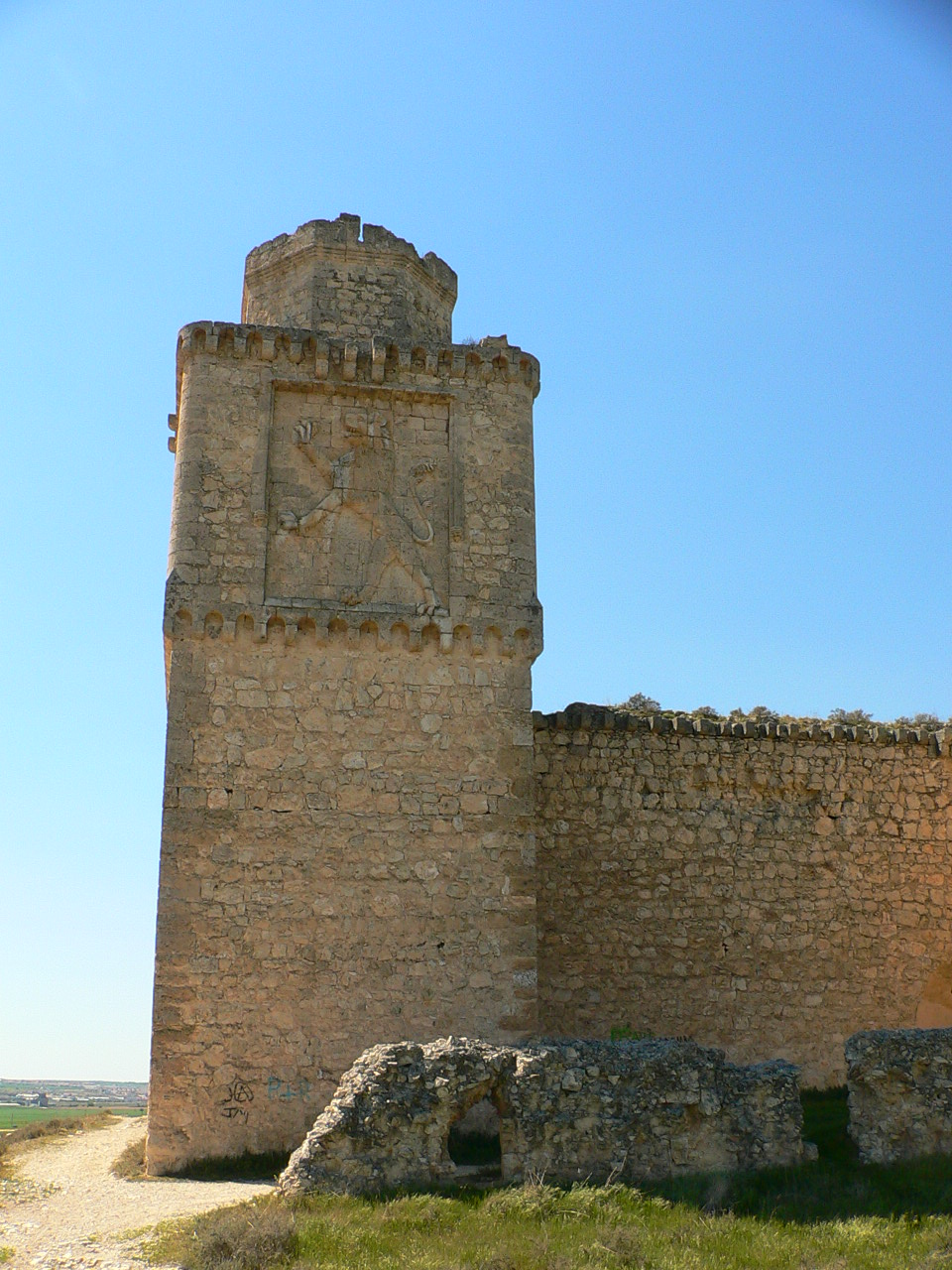 Castle of Barcience, near Maqueda, in the province of Toledo, Spain. It was built in the 15th c. by the counts of Cifuentes, whose emblem was the lion. It was used for artillery in the 16th century.